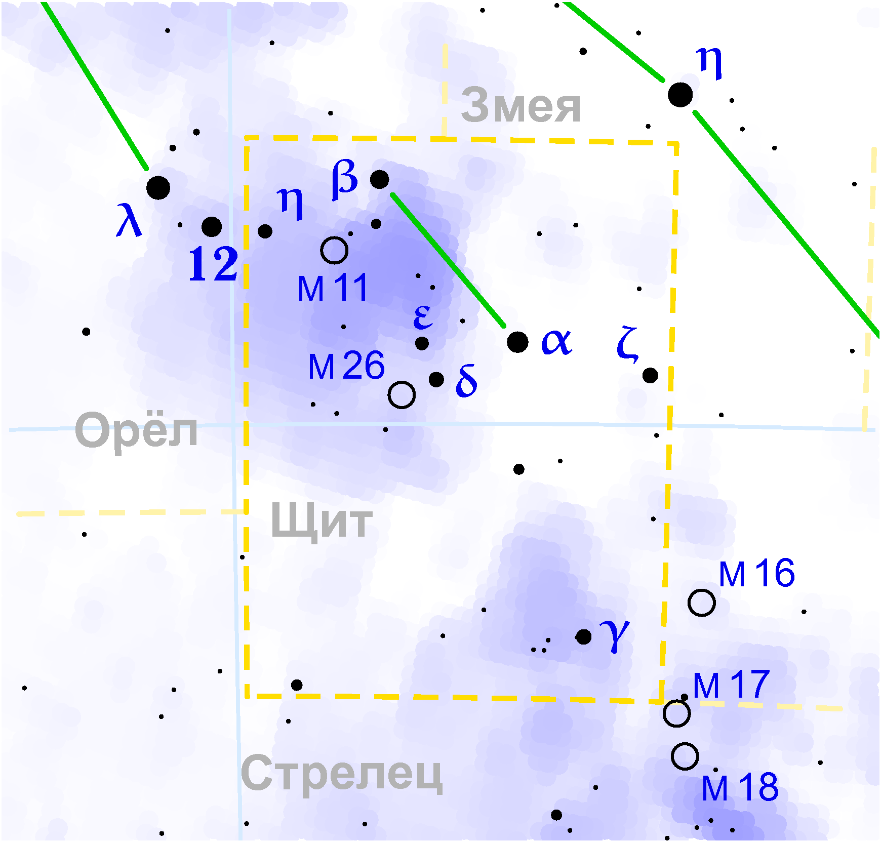 Scutum constellation map in Russian